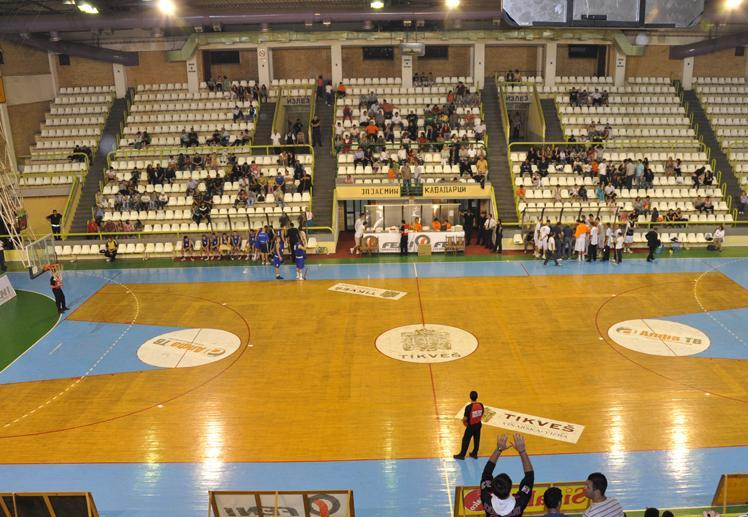 Sports Hall Jasmin in Kavadarci during a basketball match